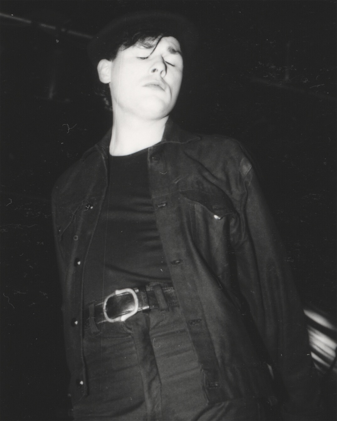 Billy Mackenzie in concert at Dundee University Student Union, Dundee. 1985